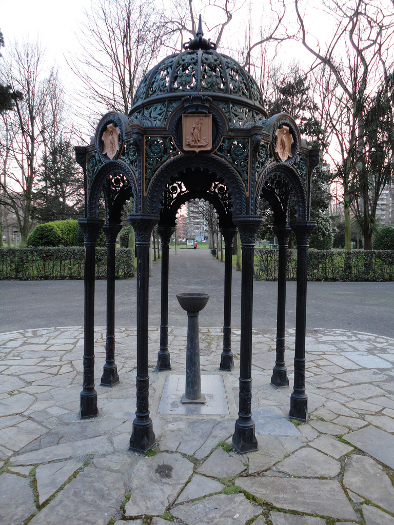 A water fountain in a shelter at Parque Isabel la Católica, Gijon, Spain.